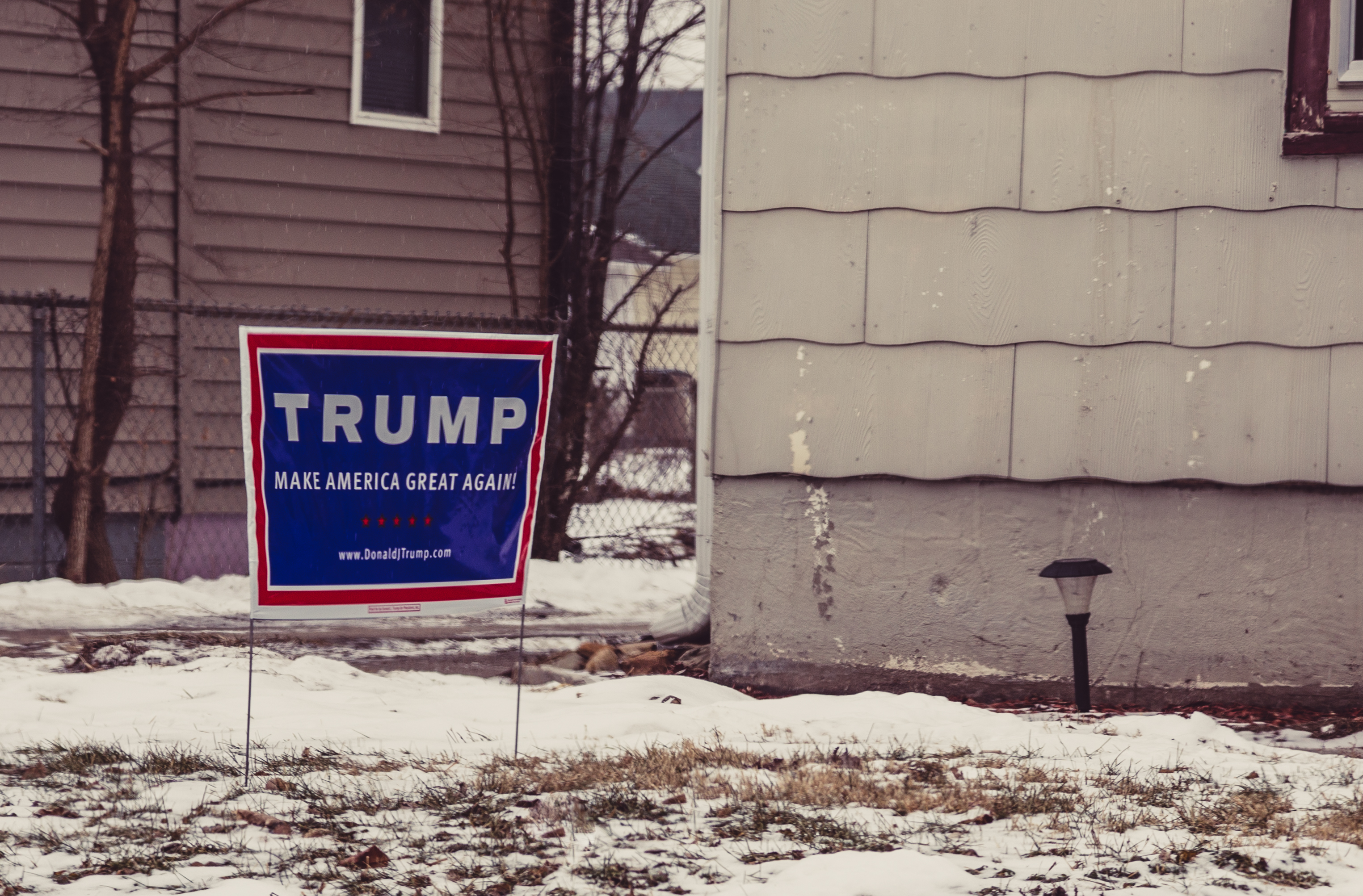 A Donald Trump for President campaign yard sign in West Des Moines, Iowa.